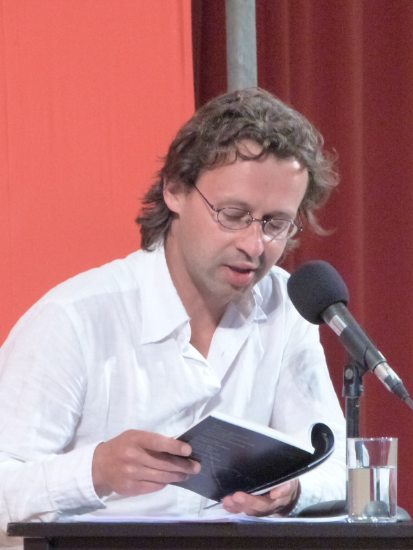 German writer, poet and translator Andre Rudolph at the Erlanger Poetenfest 2012